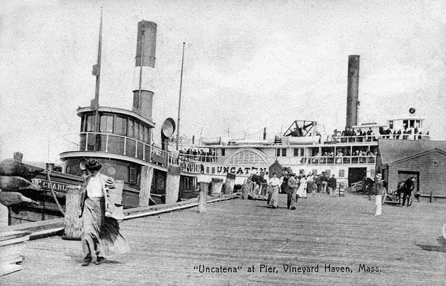 Postcard image: "Uncatena at Pier, Vineyard Haven, Mass." Divided back postcard (after 1907); postmarked 1915. The Uncatena was a paddlewheeler ferry that served the island of Martha's Vineyard.